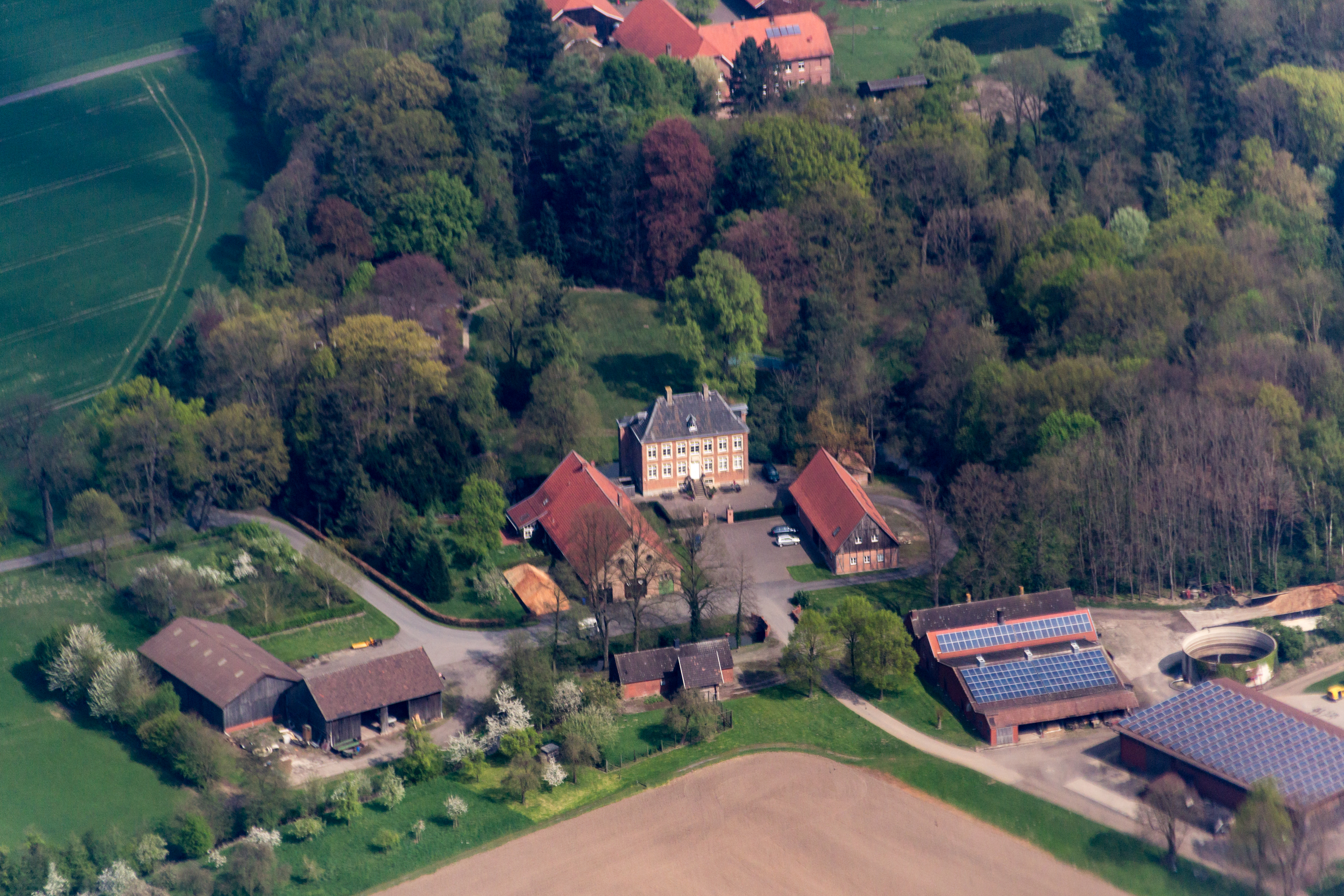 Alvinghof Manor in Senden-BösensellSenden, North Rhine-Westphalia, Germany